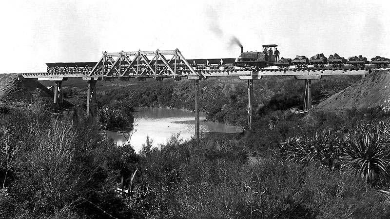 Waihi-Waikino Gold Waihi-Waikino Gold Tramway, The Rake, Black Bridge over the Ohinemuri River just upstream from the Masonry dam - Loco 'Ohinemuri' ca 1897 - HP Barry Collection WACMATramway